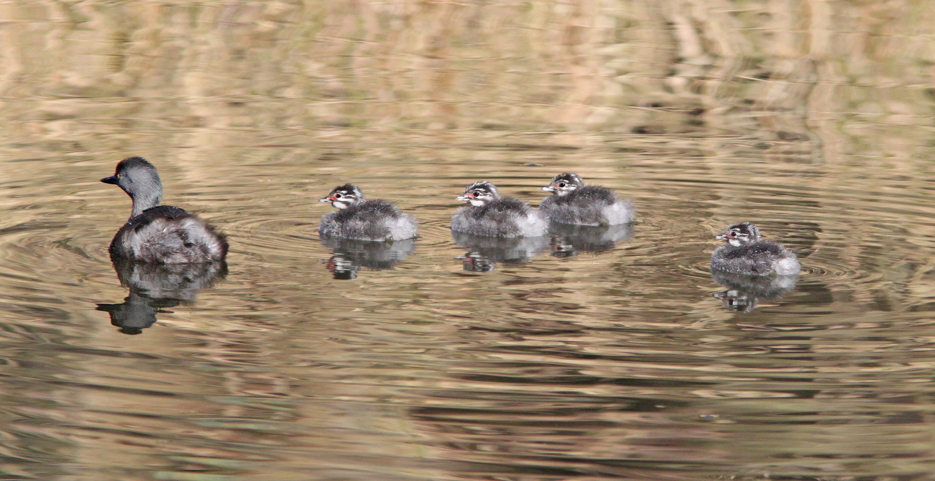 ABA AREA BIRDS: My Photo "Life List"